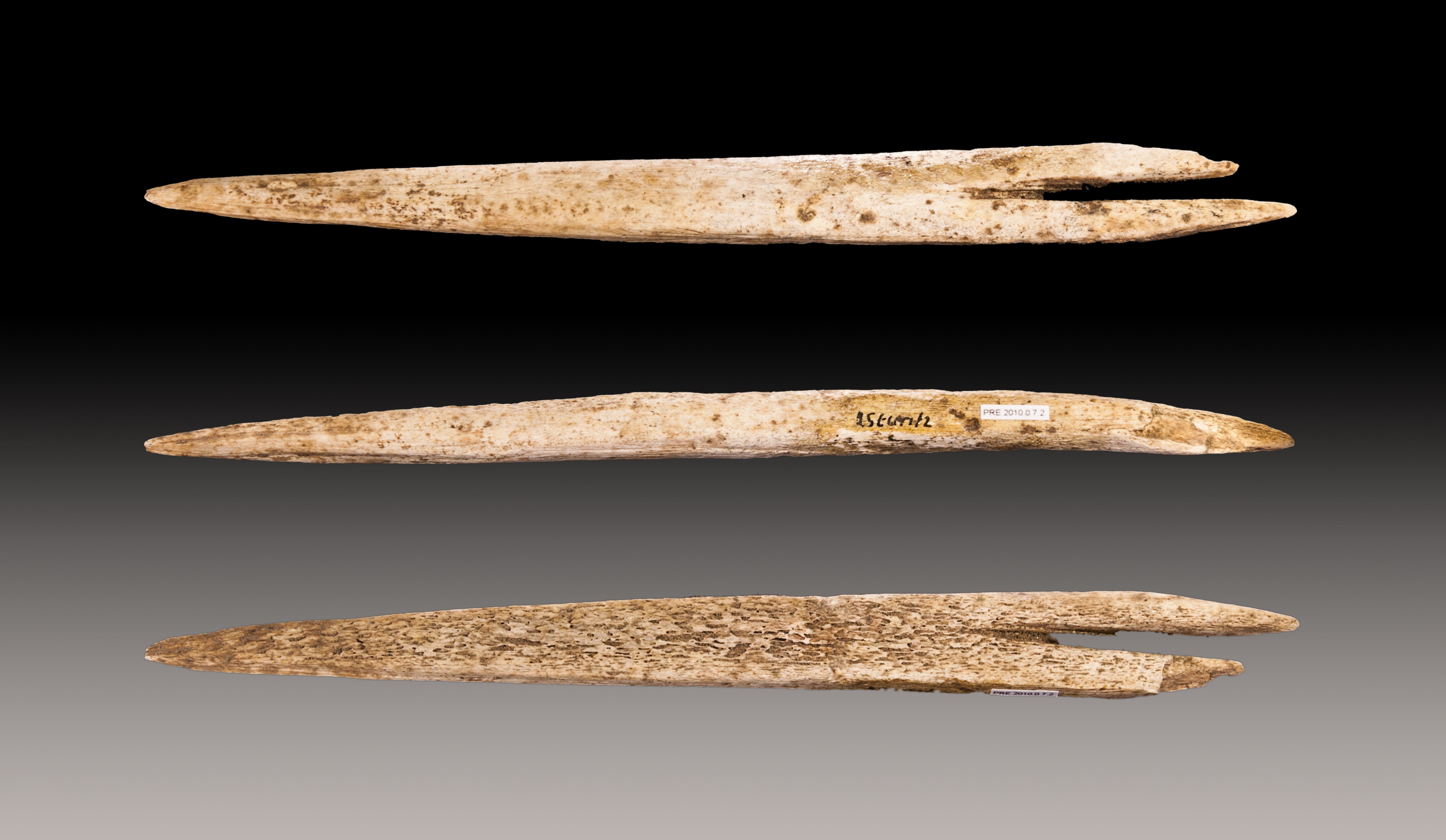 Javelin head with fork-based point, currently forming. Stage : Later Magdalenian (V et VI) (to – 12000 to - 10000 Before the Current Era) Locality : Isturitz cave, Isturits, Pyrénées-Atlantiques, France Former collection of René de Saint-Périer (1877 - 1950) Different views of the same specimen - Muséum of Toulouse MHNT.PRE.2010.0.7.2 Size : 147x14x9 mm